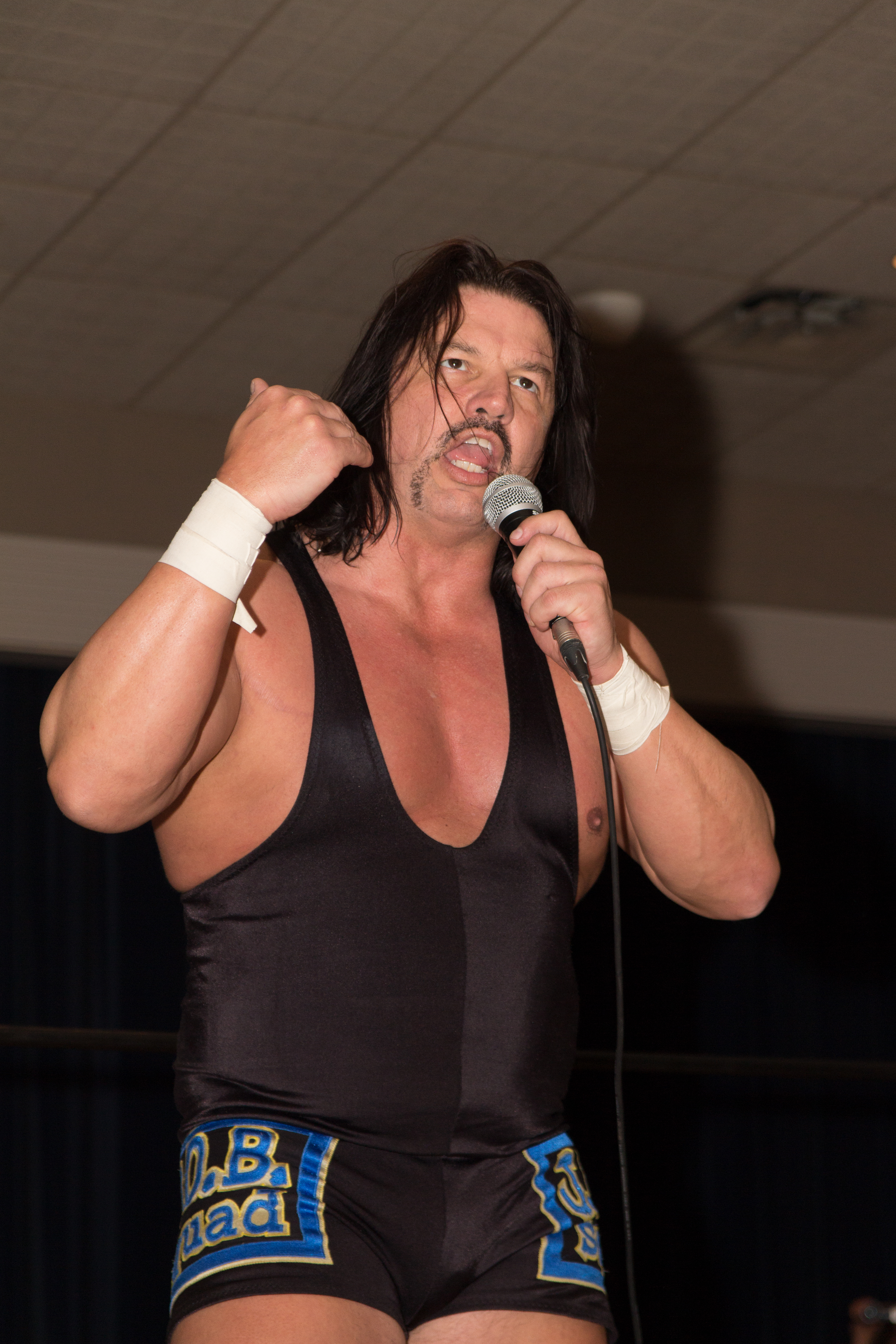 Wrestler Al Snow at Hardcore Roadtrip's Banned in the USA show in London, ON